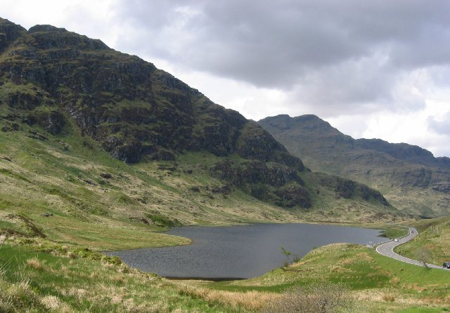 Loch Restil. Seen from the Lochgoilhead - Rest and Be Thankful road, the loch lies at the top of the Rest and Be Thankful pass, between Beinn Luibheinn and Beinn an Lochain.